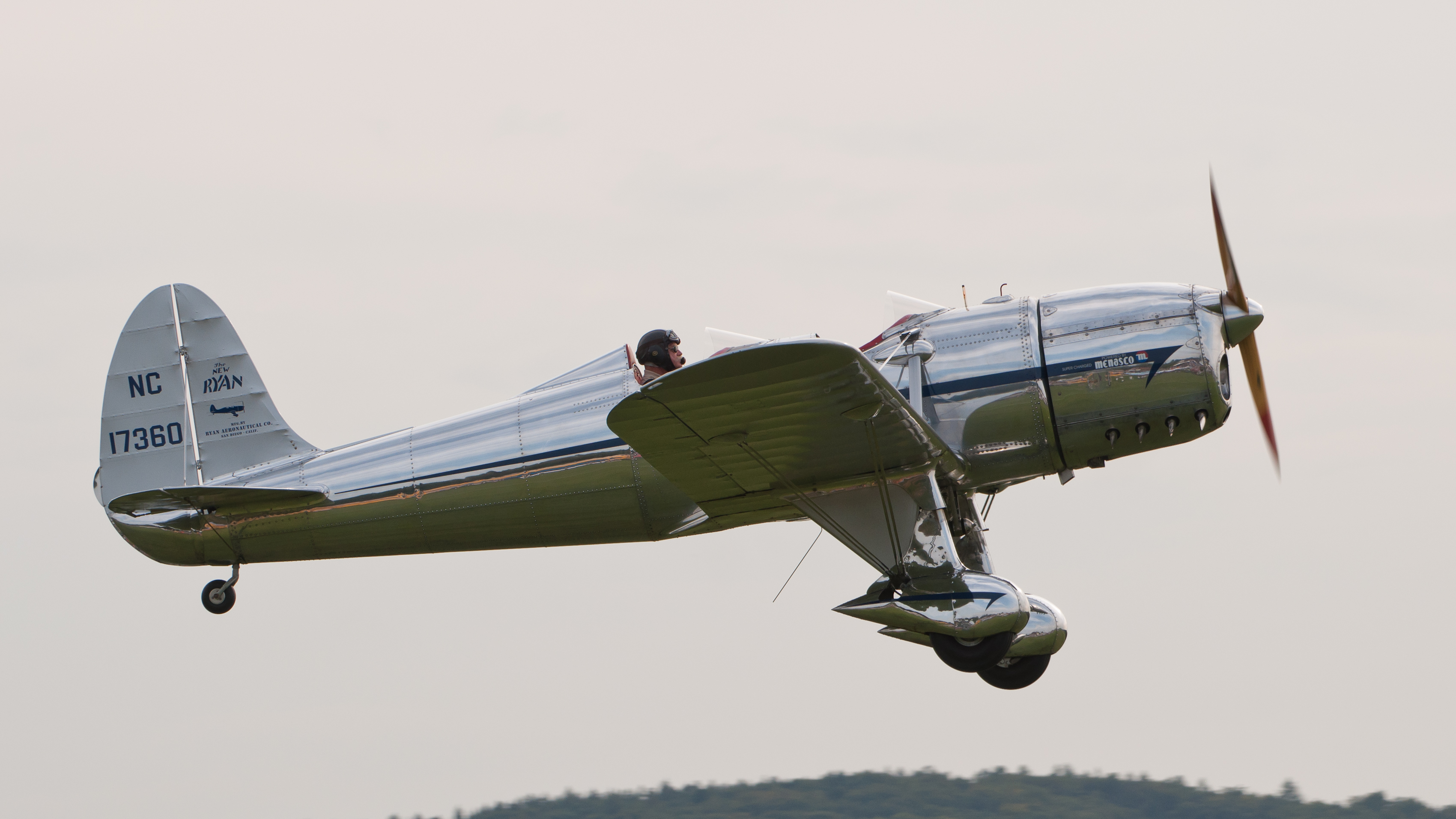 Ryan STA Special (reg. NC17360, cn 184, built in 1937). Engine: Menasco D4-B.